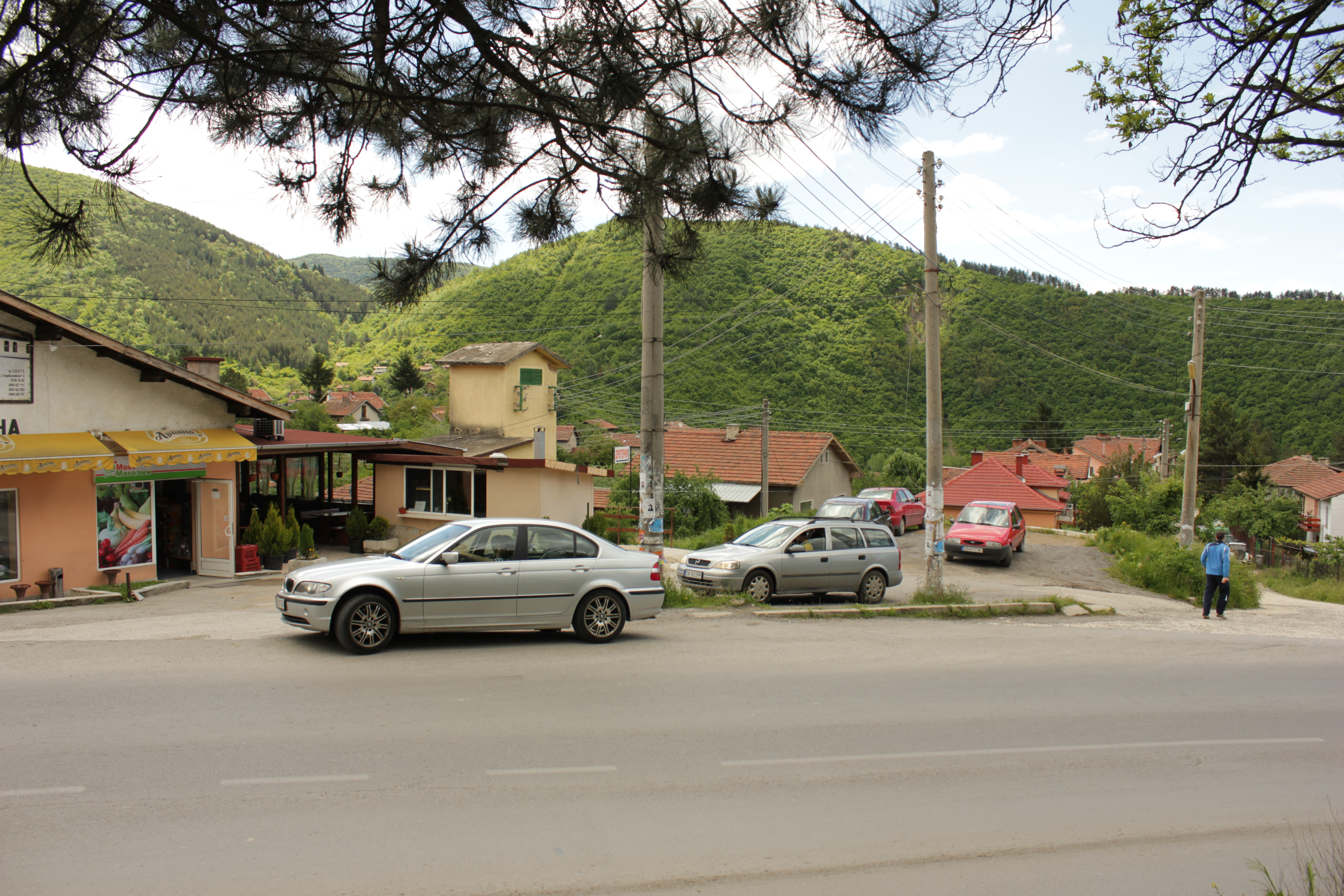 Vlado Trichkov center